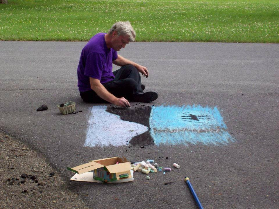 Visitors to Tioga-Hammond & Cowanesque Lakes showcased their artistic talents by creating water safety chalk art throughout the parks to remind visitors of the importance of wearing a life jacket.